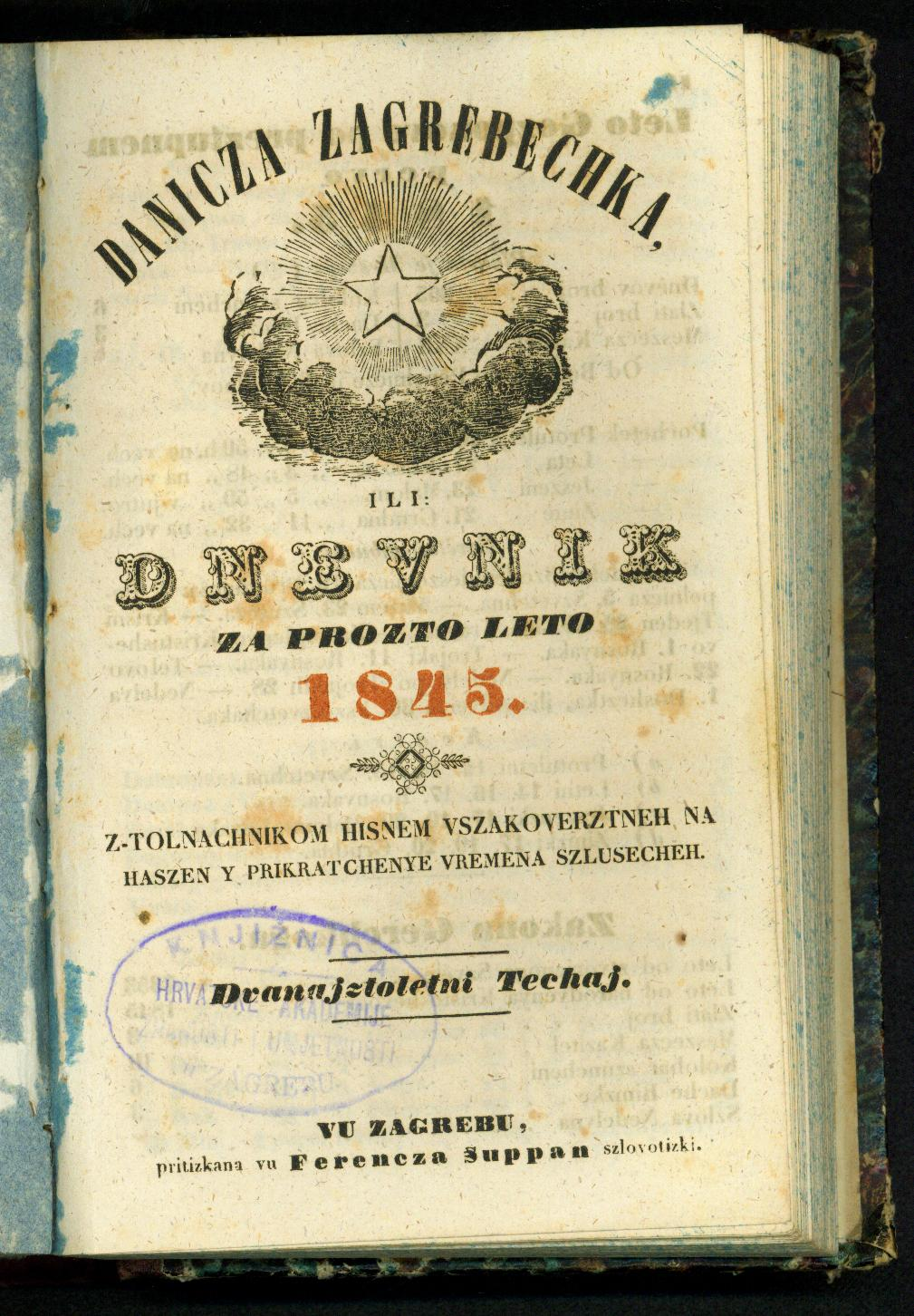 Danicza zagrebechka (1845), Kajkavian Croatian calendar. Editor: Ignac Kristijanović